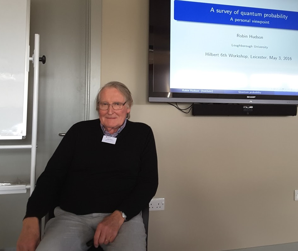 Professor Robin Lyth Hudson giving a plenary talk "A survey in quantum probability" at the EPSRC-LMS-IMA Conference Hilbert's sixths problem in Leicester, May 3, 2016 (a journal version of this talk is published in 2018: Robin Hudson, A short walk in quantum probability, Phil. Trans. R. Soc. A 376 (2118) 20170226, 2018